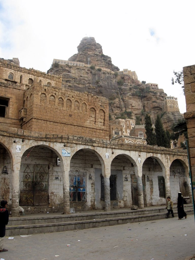 Atawhila market street (at noon everything is closed..)